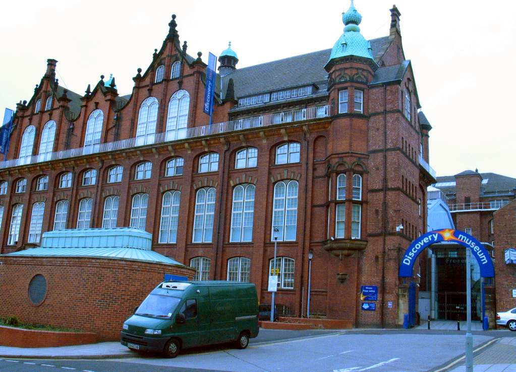 Discovery Museum, Newcastle upon Tyne